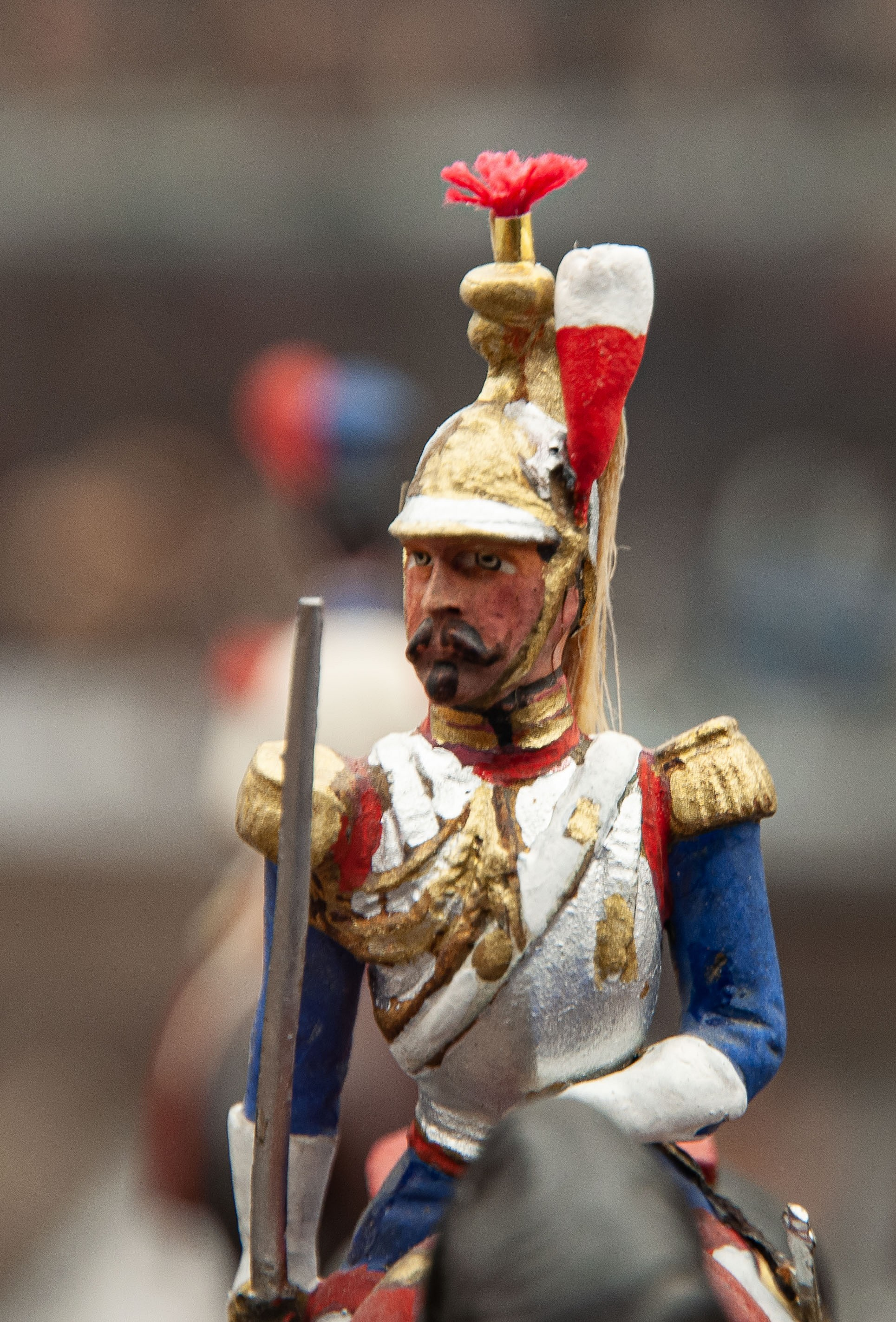 Figurine exhibited at the Musée de l' Armée in Paris.